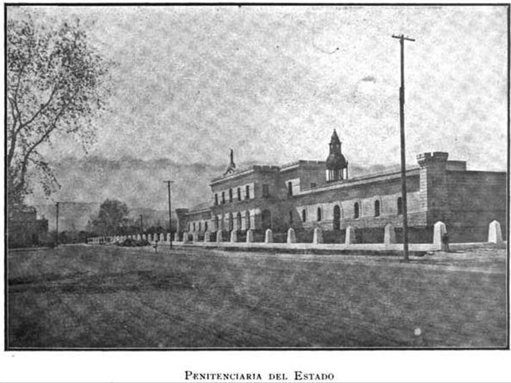 State penitentiary in Monterrey Mexico from 1902. This building does not exist today.